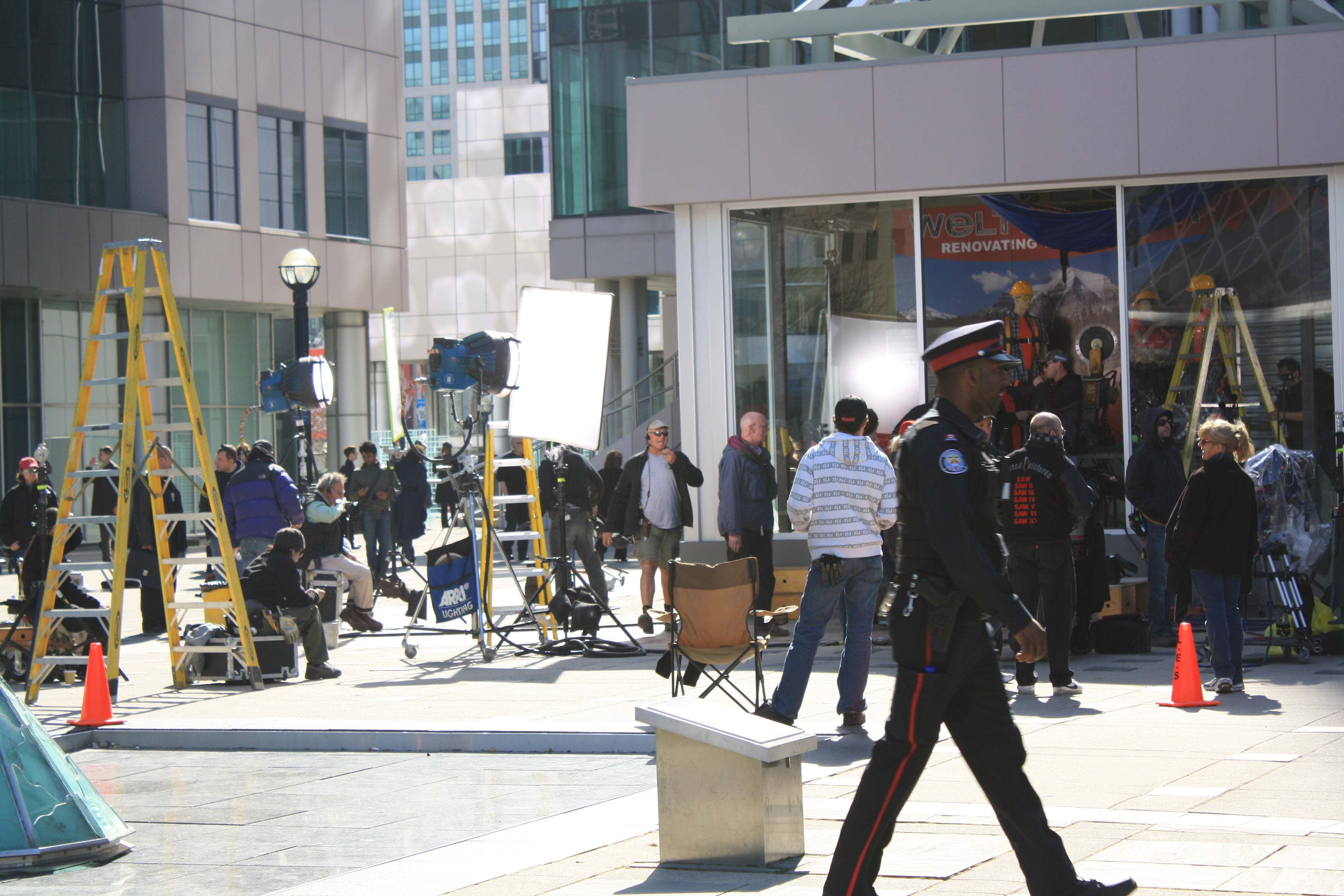 The opening scene from the film Saw VII being shot at the Metro Hall in Toronto, Canada.